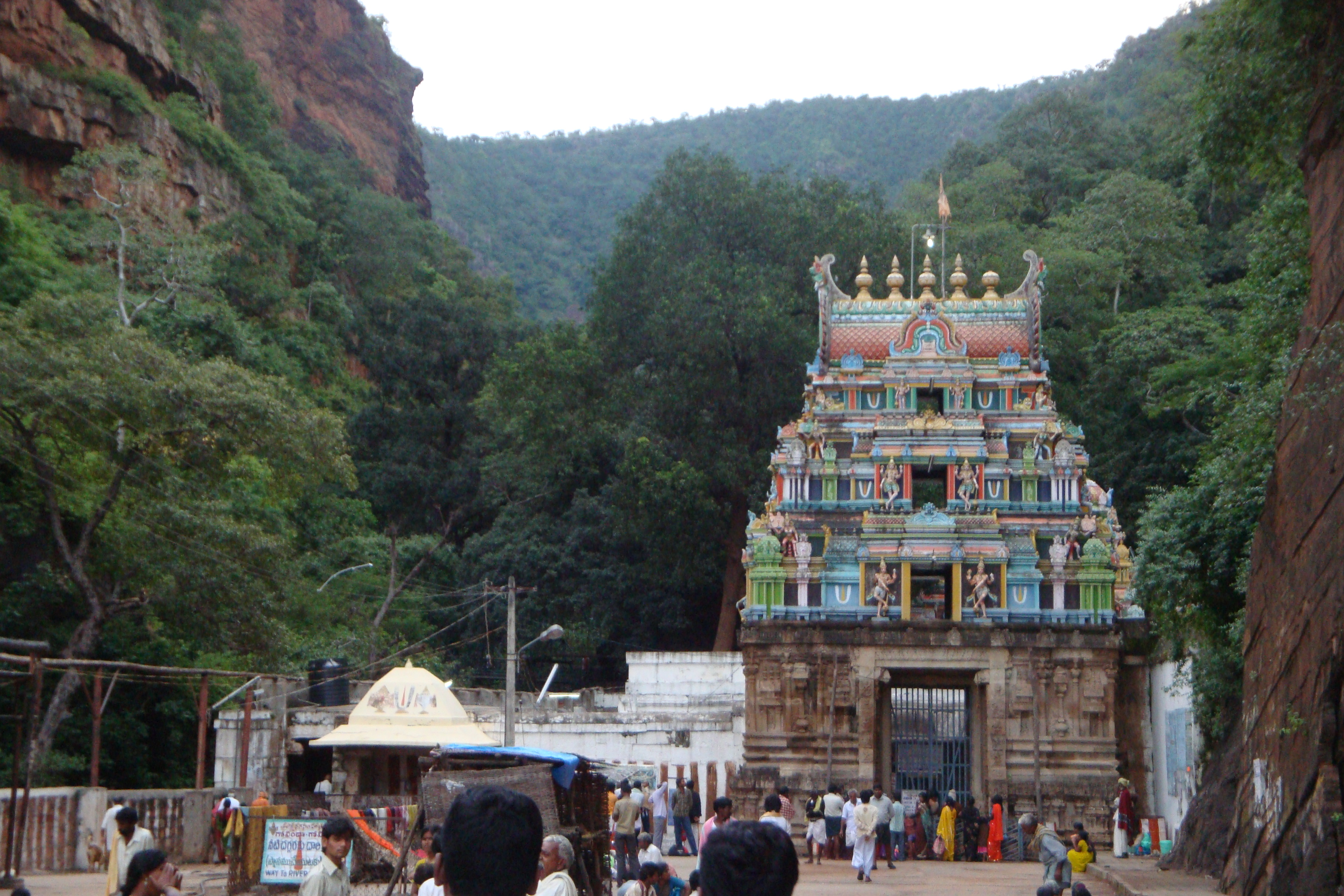 Sri Narasimhaswami temple in RF